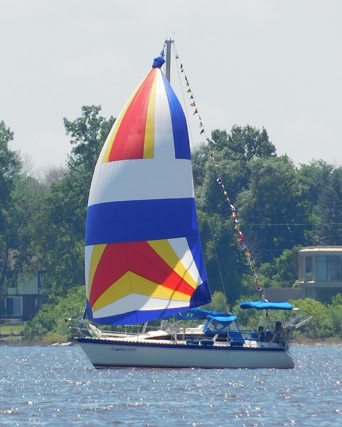 A Tanzer 29 sailboat named Caprice 2000 with spinnaker flying.